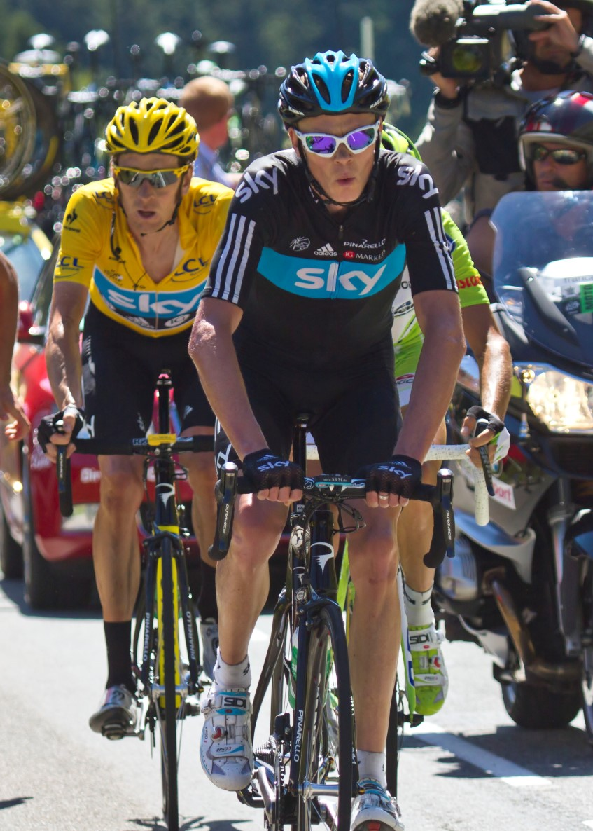 047 wiggins - froome